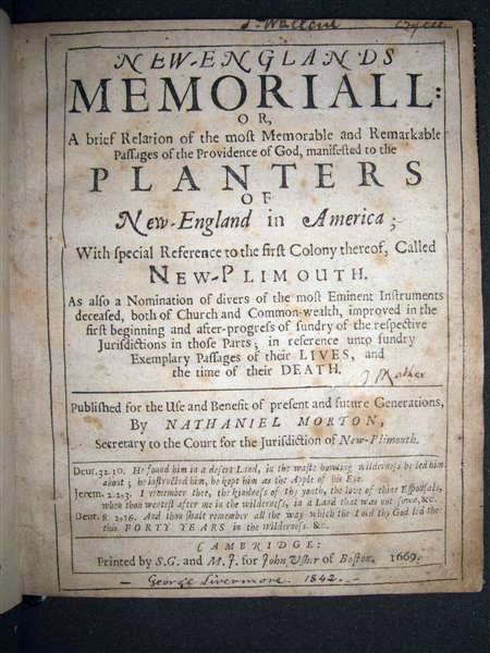 Title page of "New England's Memorial," written by Nathaniel Morton, secretary of the Plymouth Colony and nephew of Governor William Bradford. Printed at Cambridge, Massachusetts, 1669.